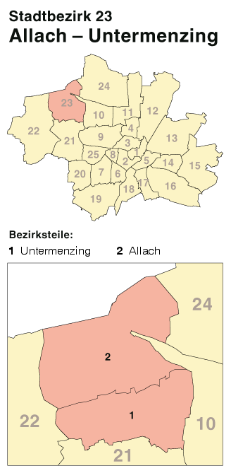 Boroughs of Munich map series